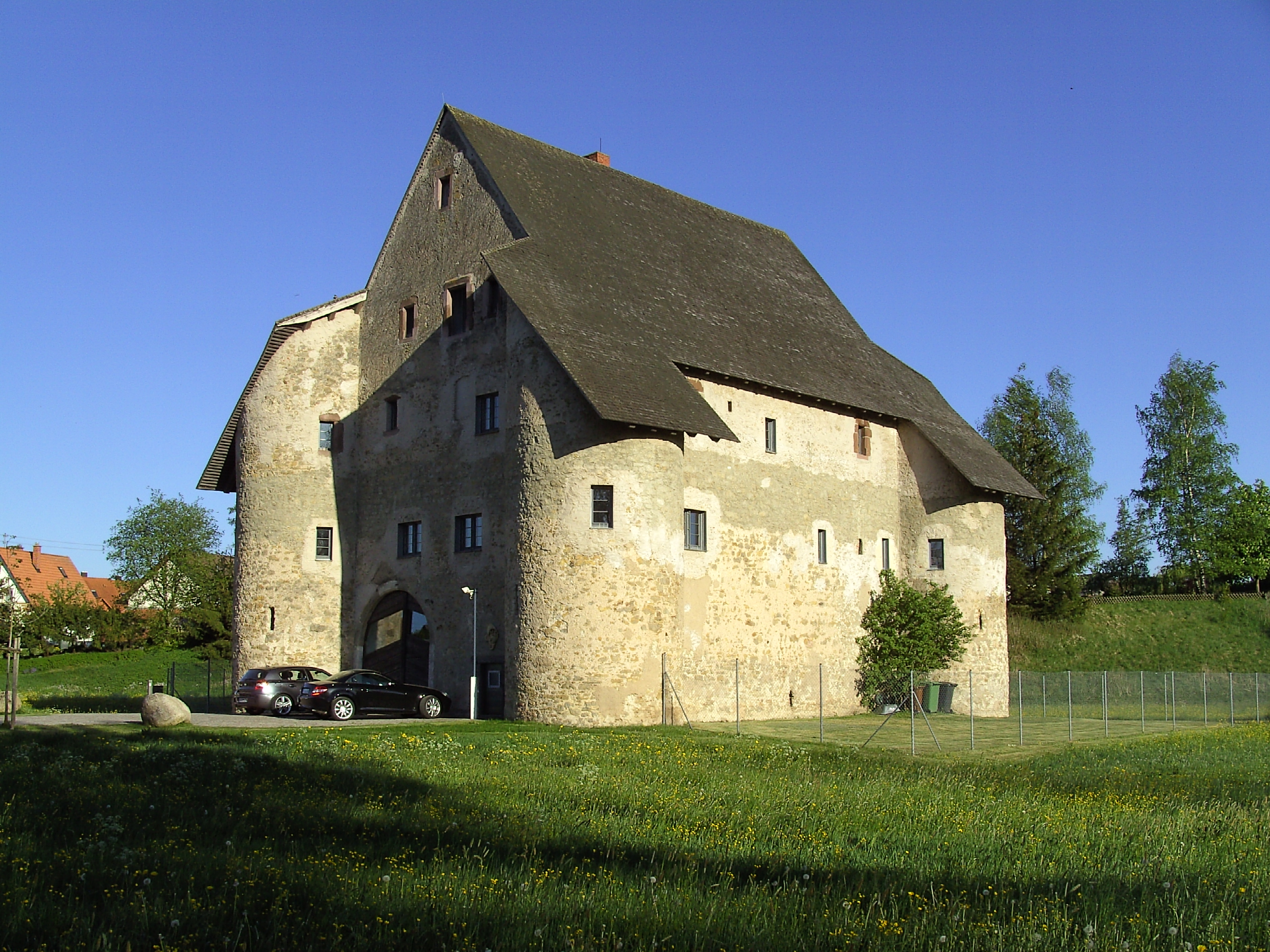 The water castle Pfohren (Ducks Castle)